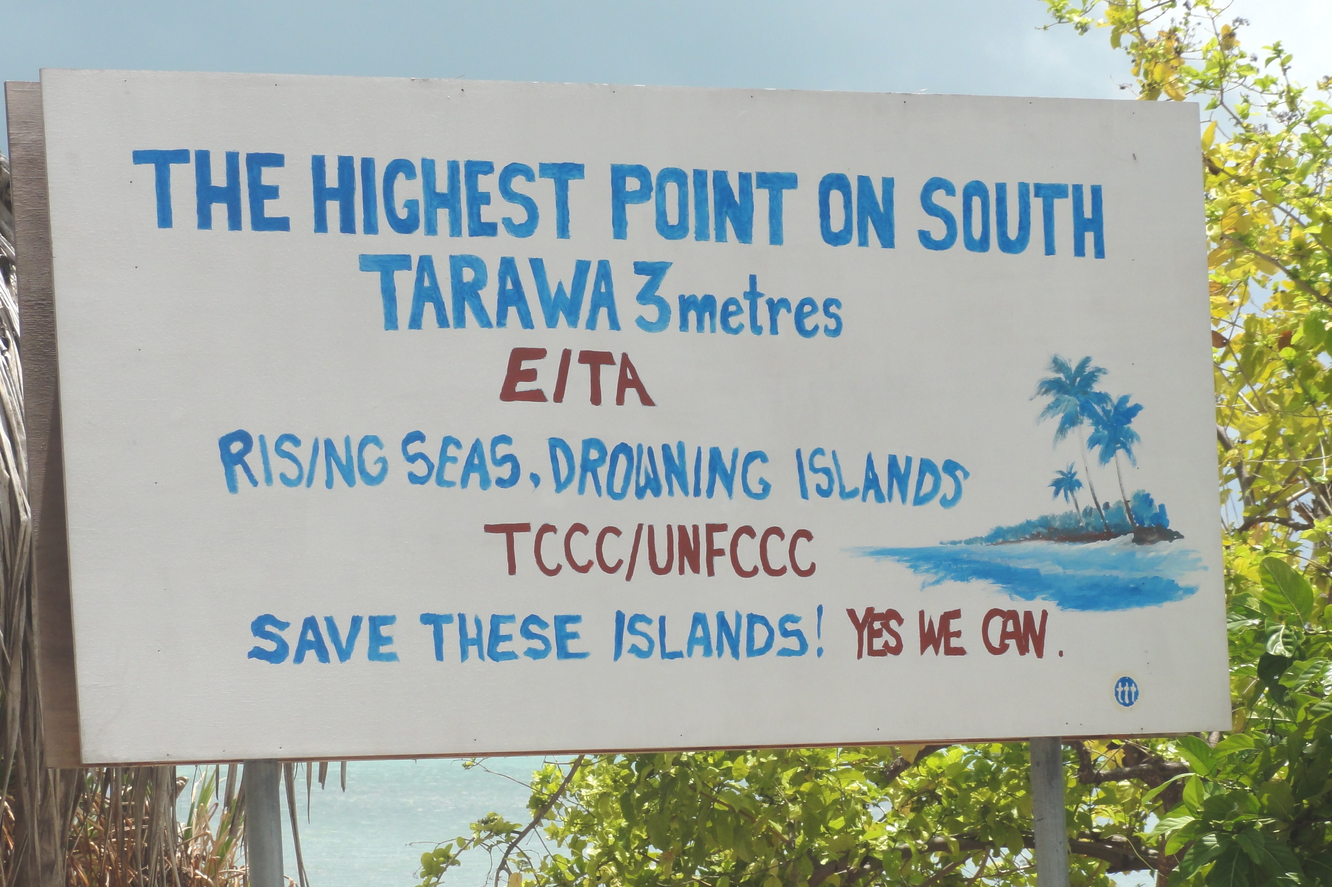 As an extremely low-lying country, surrounded by vast oceans, Kiribati is at risk from the negative effects of climate change, such as sea-level rise and storm surges, 2011. Photo: Erin Magee / DFAT.